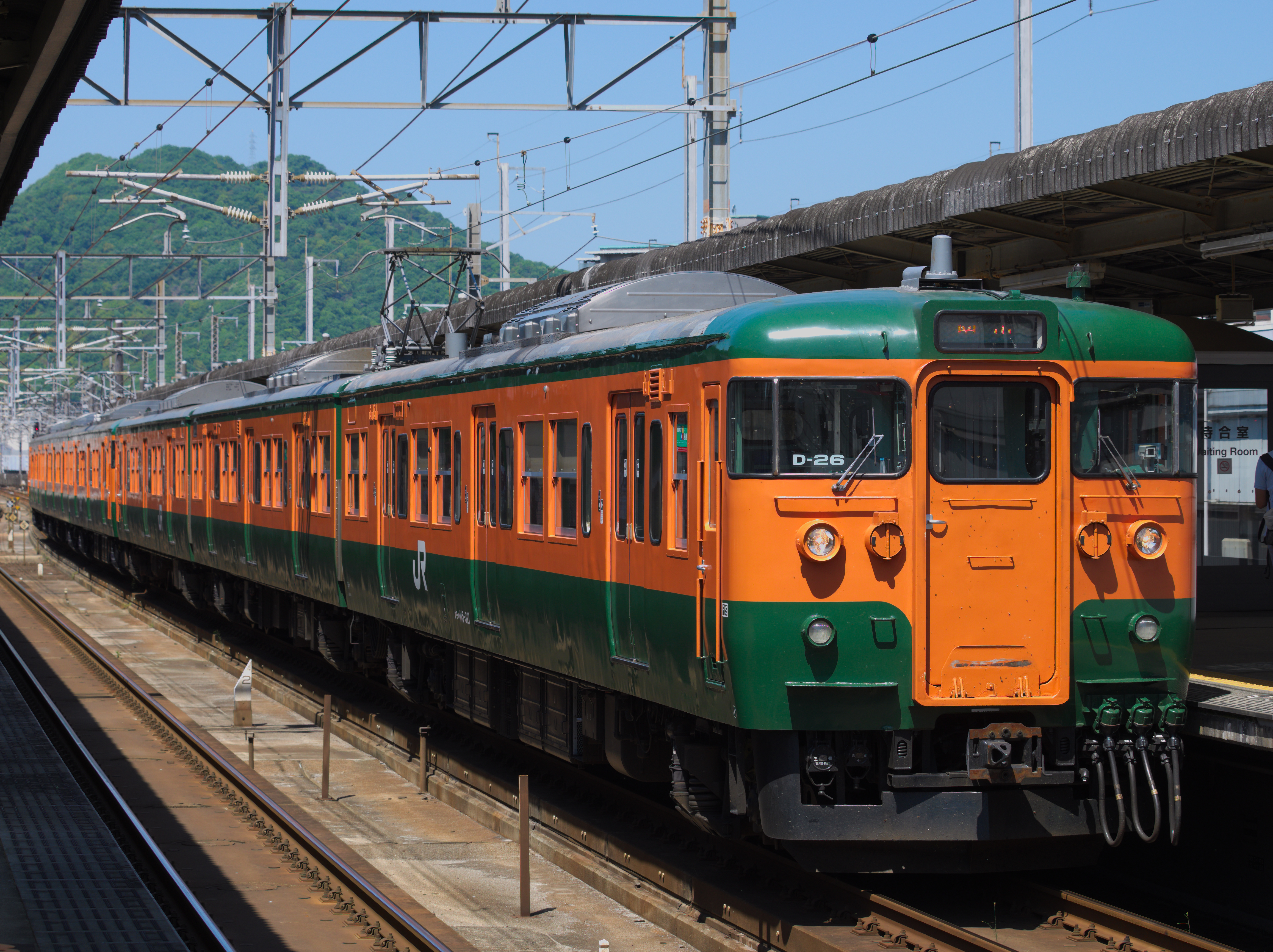 JR West Okayama-based 115 series 3-car EMU sets D-26 and D-27 at Mihara Station